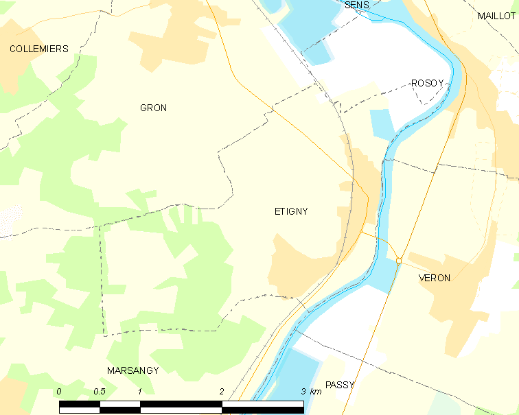 Map of French municipality Étigny